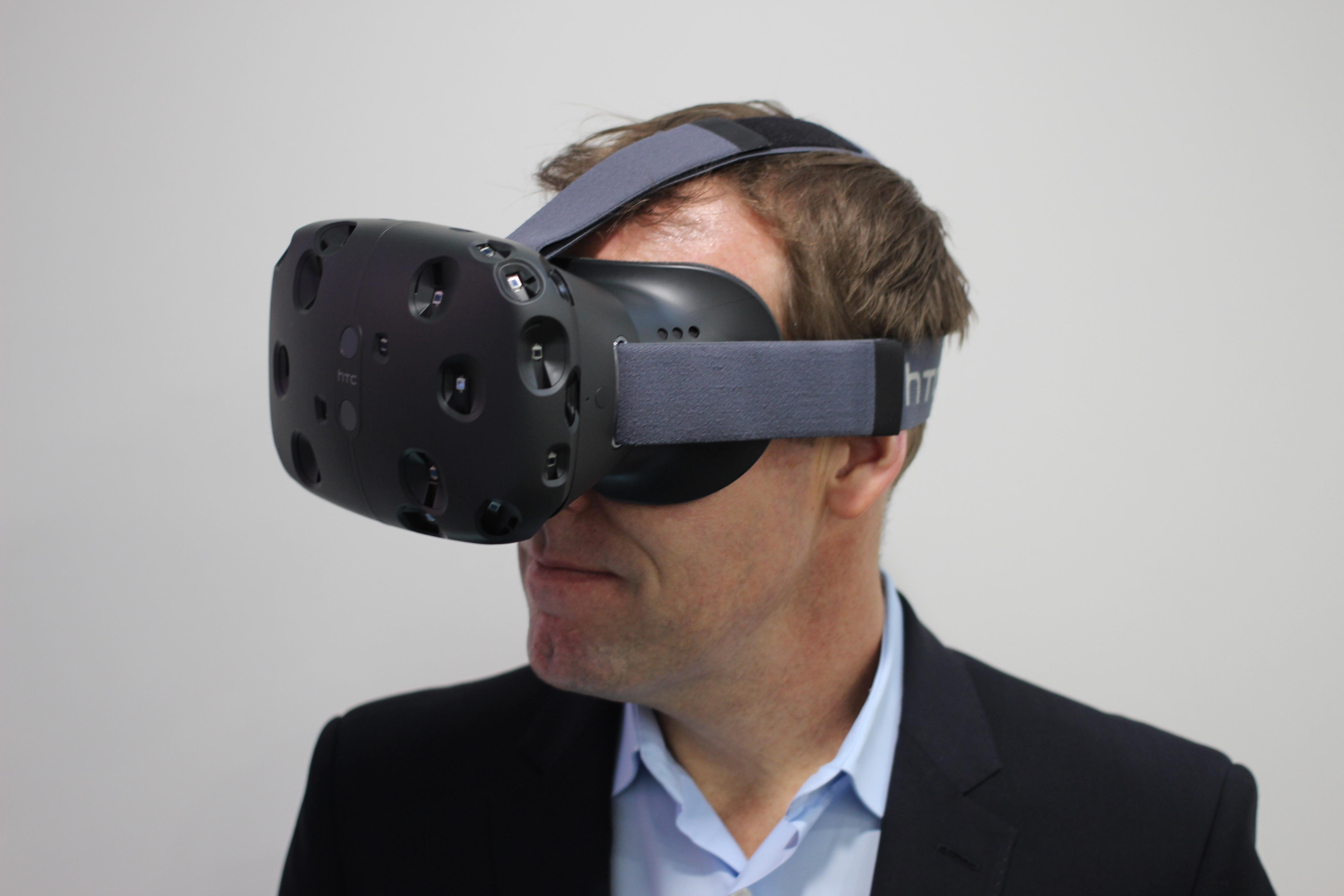 HTC executive director of marketing, Jeff Gattis wears the HTC RE Vive